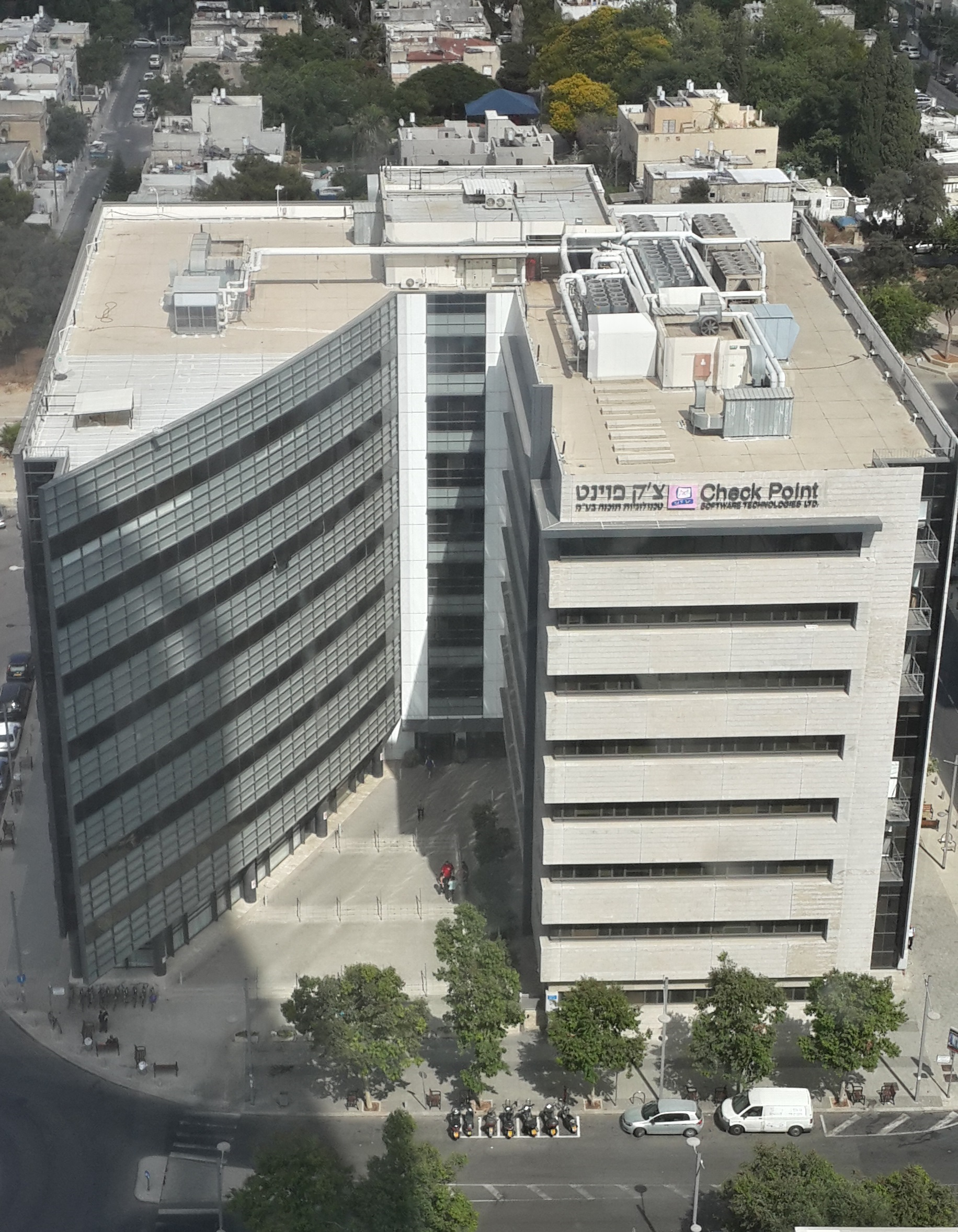 View of Tel Aviv from floor 26 in Electra Building